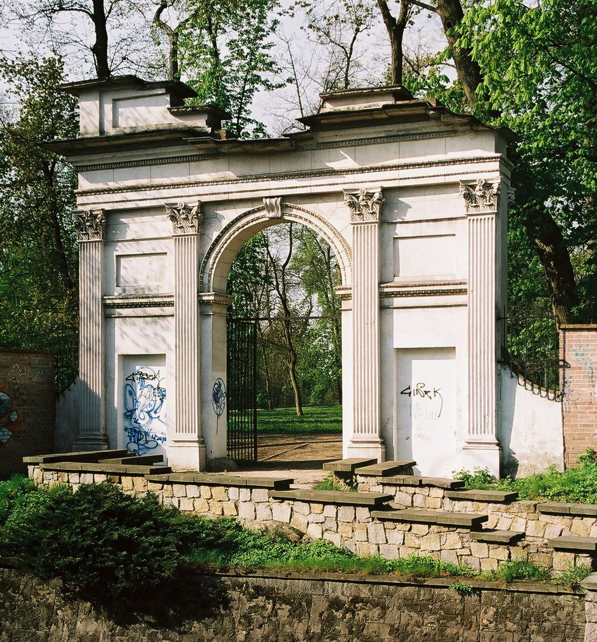 Brama Rzymska in Puławy, Poland; view from north-east, outside of palace park